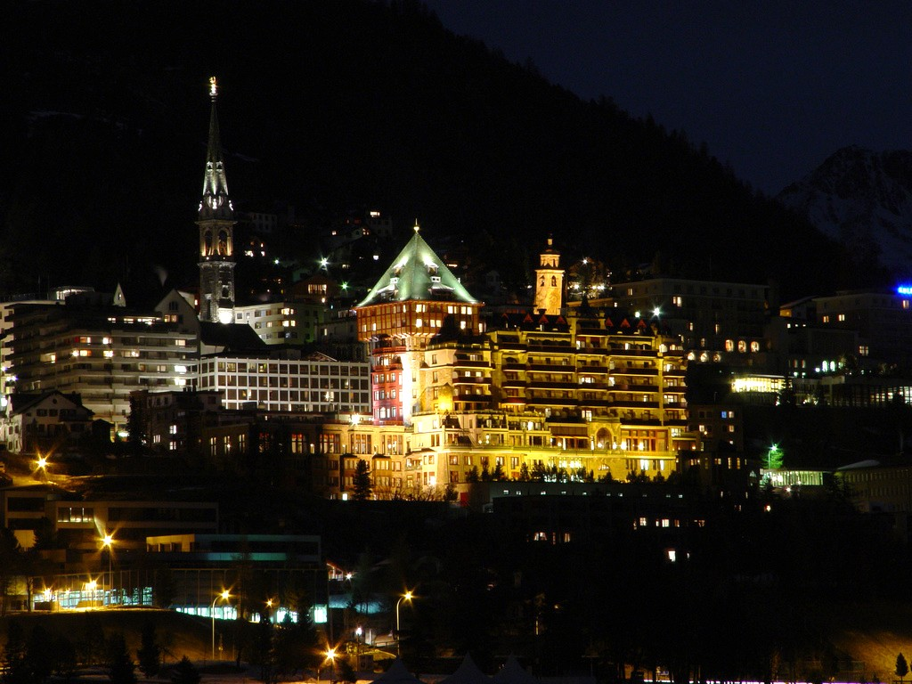 Night view of St. Moritz, Graubünden